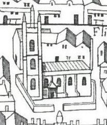 Detail from the "Copperplate" map of London, surveyed 1553-9, showing St Bride's Church.